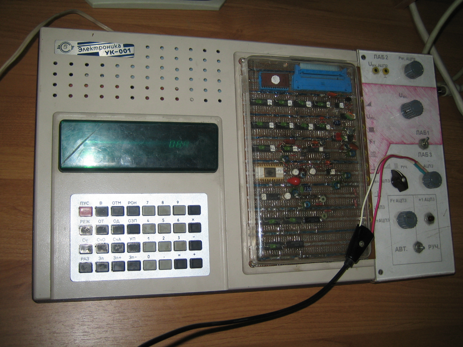 Soviet educational computer Elektronika UK-001